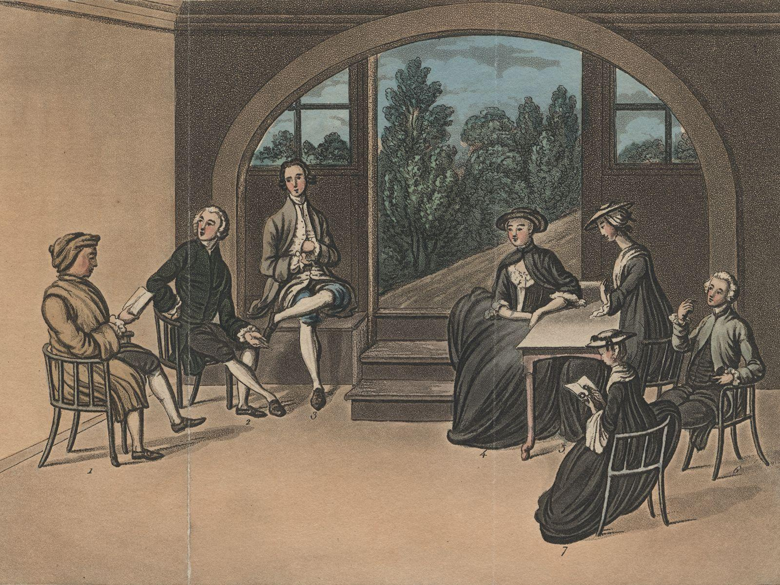 Samuel Richardson, by Miss Highmore, published 1804. According to the NPG's website the work was published prior to 1859, and so the author is reasonably presumed dead by 1939.